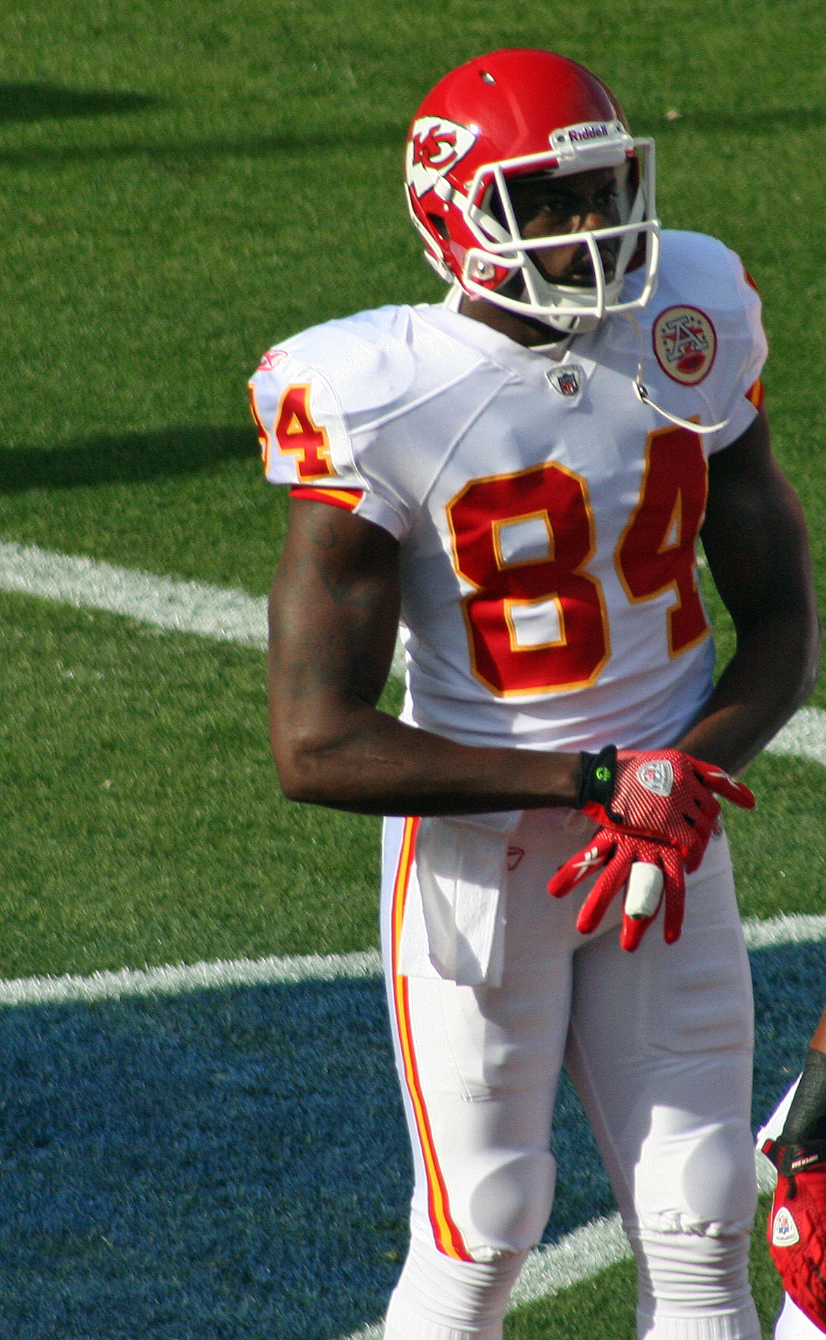 Chris Chambers, a player on the Kansas City Chiefs American football team.